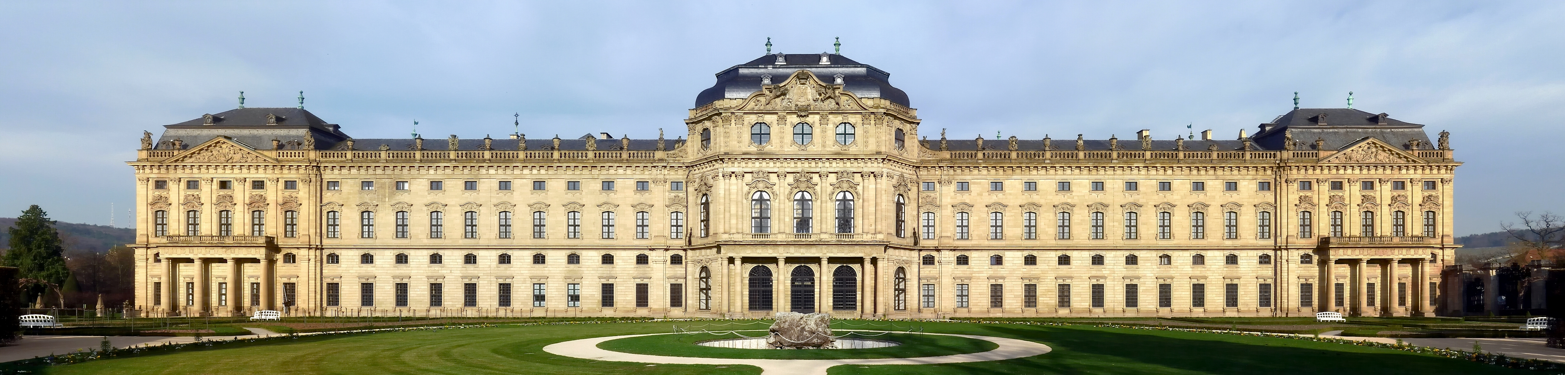 The 168 Meter long Seite of the Würzburg Residenz, built in Würzburg Prince-Bishops from 1719 to 1780. It is the most significant Residenzbau of late Baroque in Europe. She was inscribed in the UNESCO World Heritage List in 1981. The Residence is visited annually by approximately 350,000 Visitors.